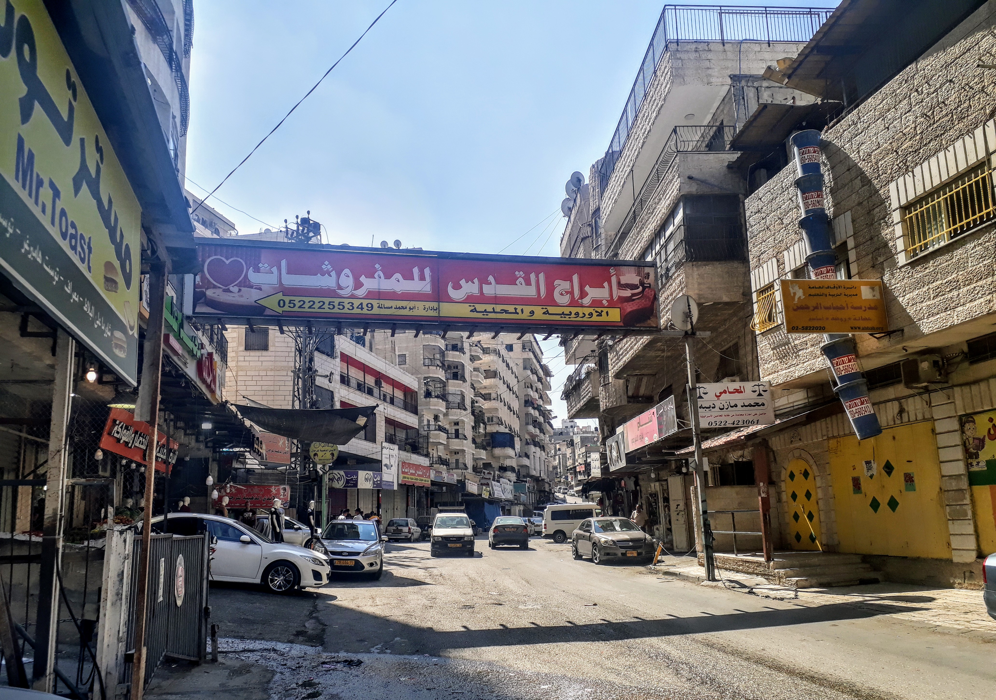 Shuafat Main Street